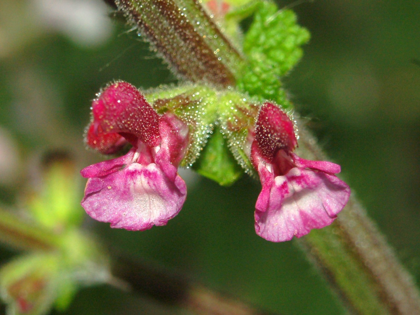 Flowers of Salvia viscosa at the botanical garden of Villa Durazzo-Pallavicini, Genova Pegli